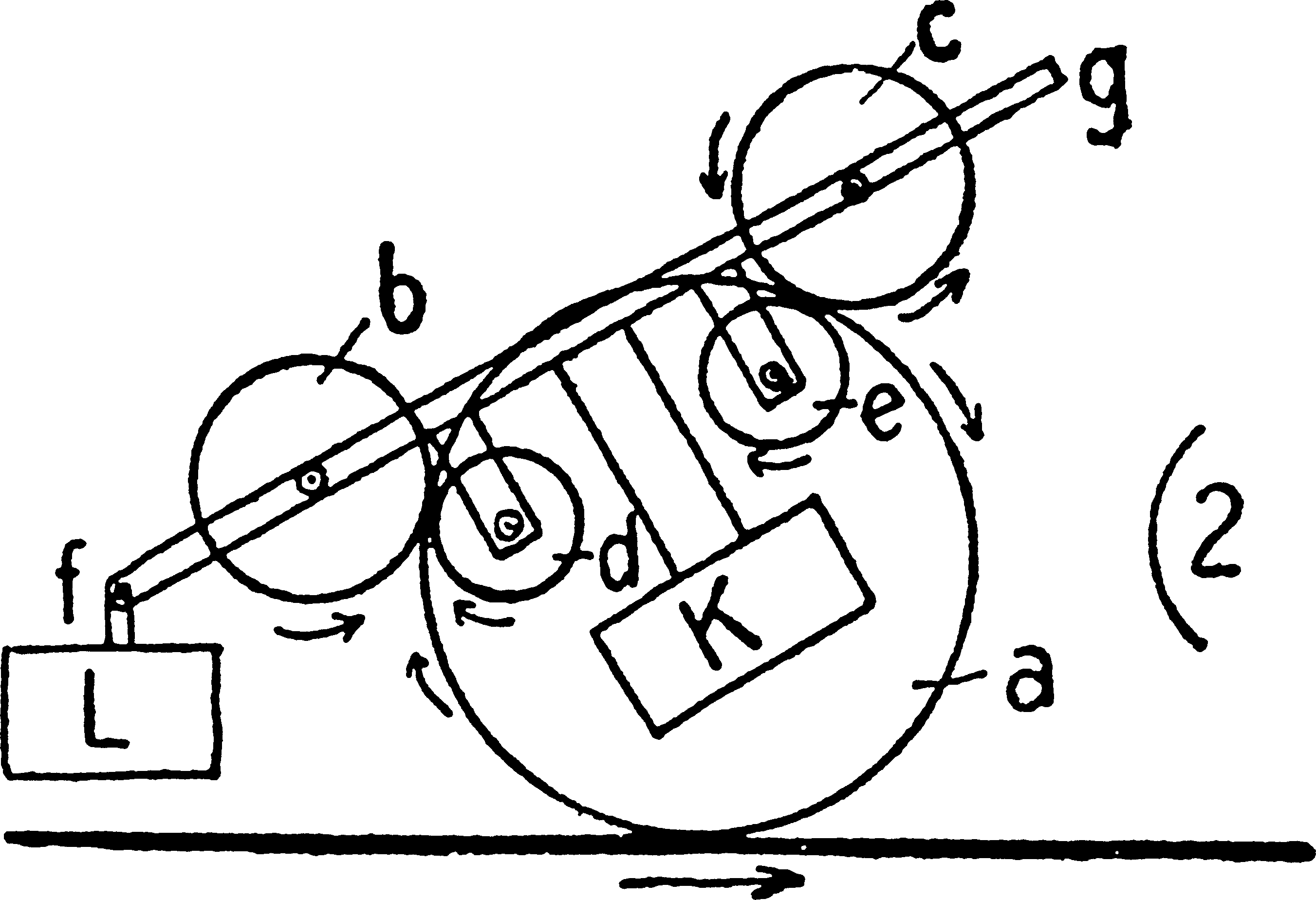 Perpetuum Mobile, drawing by Paul Scheerbart (1910)